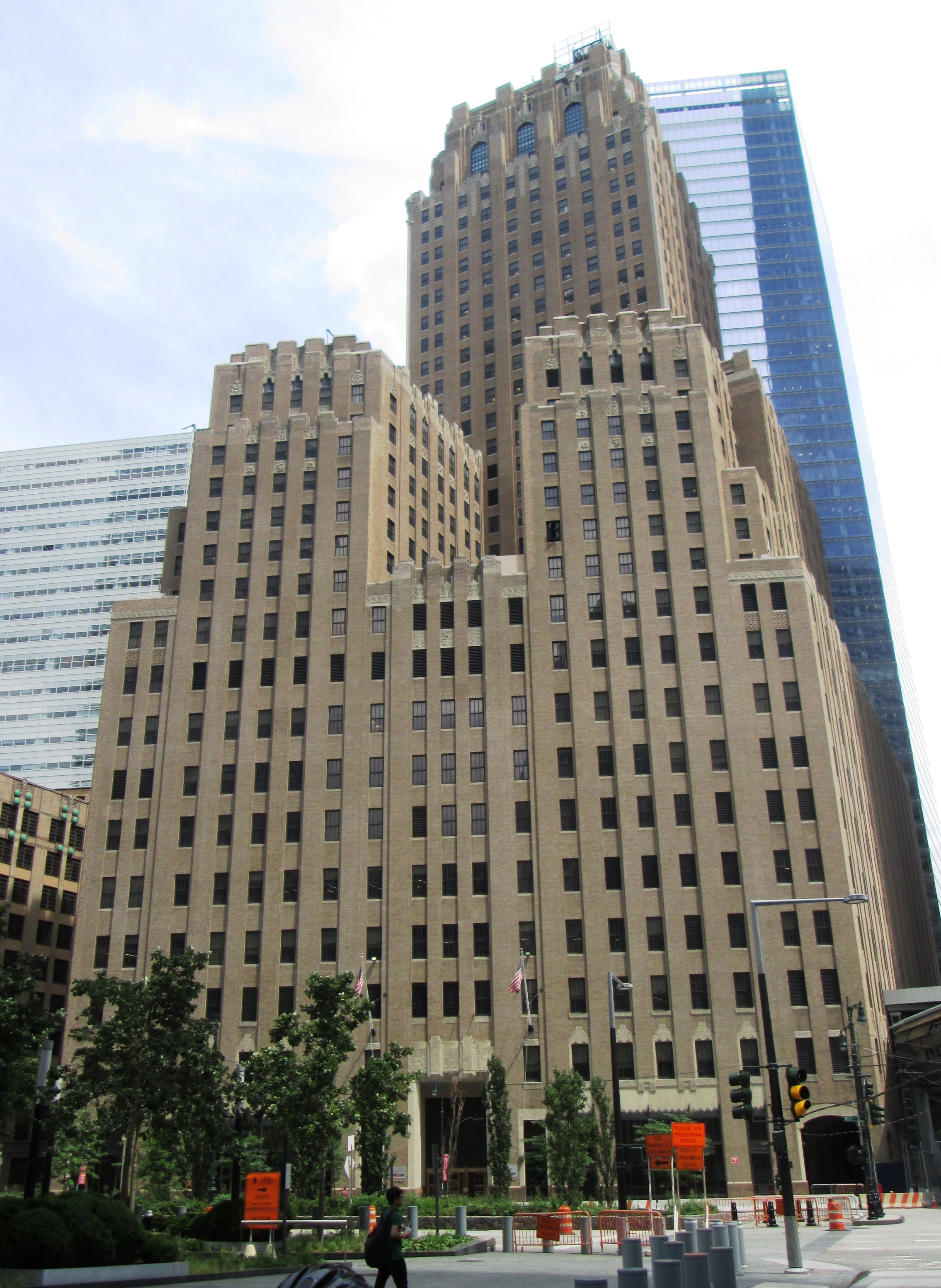 The Verizon Building, also known as the Barclay-Vesey Building, is located at 140 West Street between Barclay and Vesey Streets with a facing on Washington Street in the TriBeCa neighborhood of Manhattan, New York City. It was built 1923-27 and was designed by Ralph Walker of McKenzie, Voorhees & Gmelin in the Art Deco style. It stood across the street from the World Trade Center, and was damaged in the 9-11 attack. It is the corporate headquarters of Verizon Communications. (Source: AIA Guide to New York City (5th ed.))